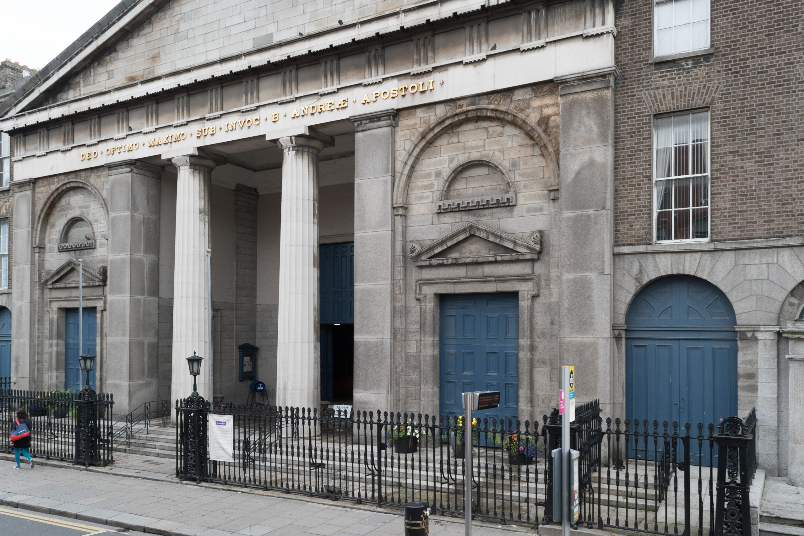 Rathaus city hall Dublin